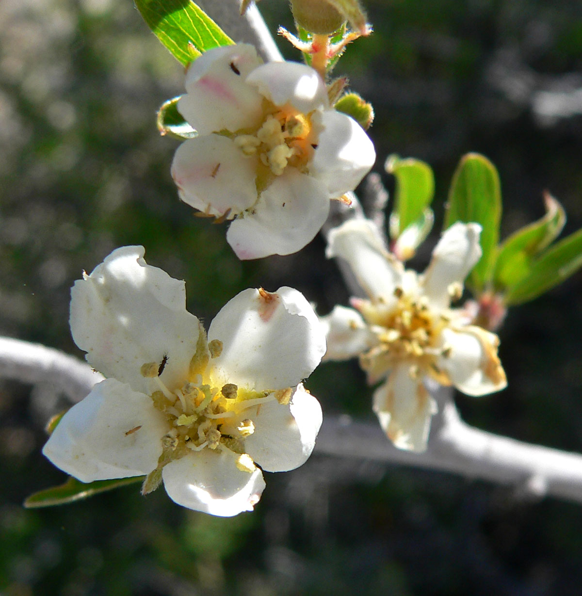 Peraphyllum ramosissimum near high point of road to Potosi Spring from route 160, 4 km SSW of Mountain Springs, Spring Mountains, southern Nevada (elev. about 1900 m)